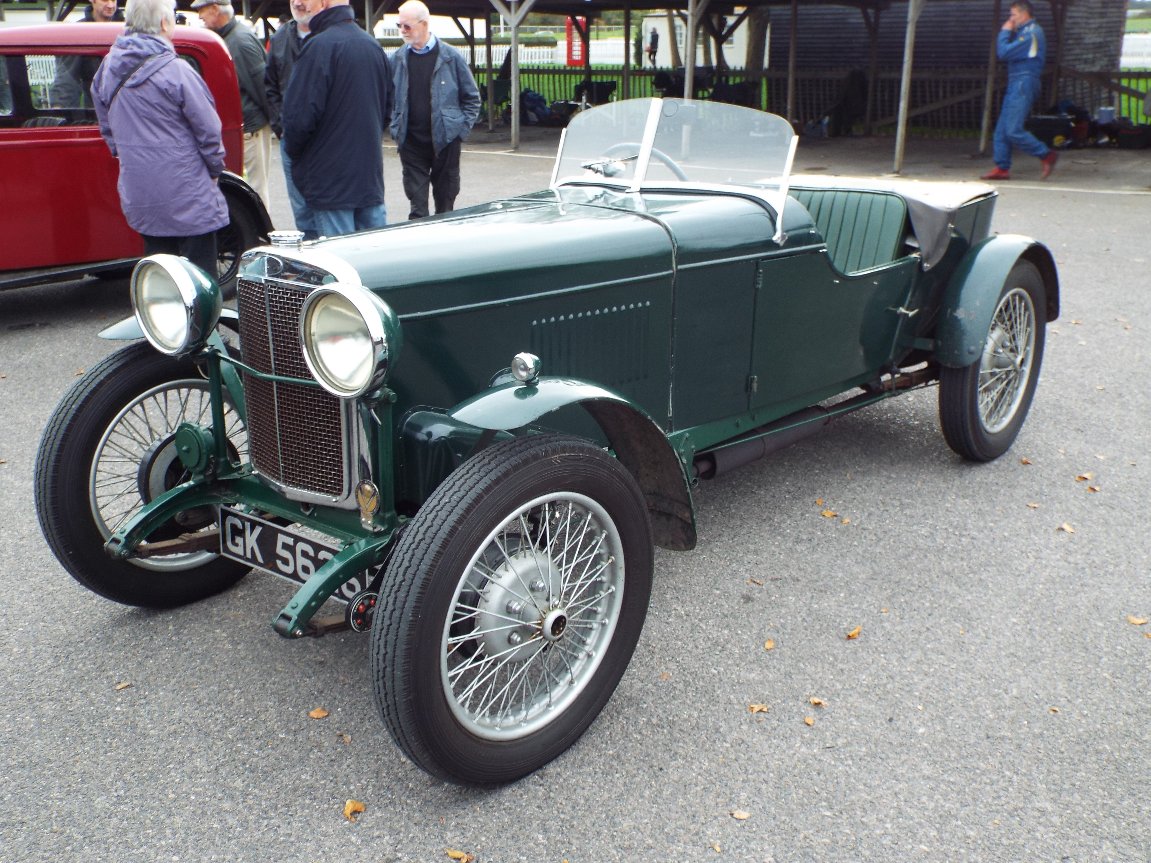 1931 Avon Standard Big Nine Special 2015 - VSCC Speed Season Finale, Autumn Sprint